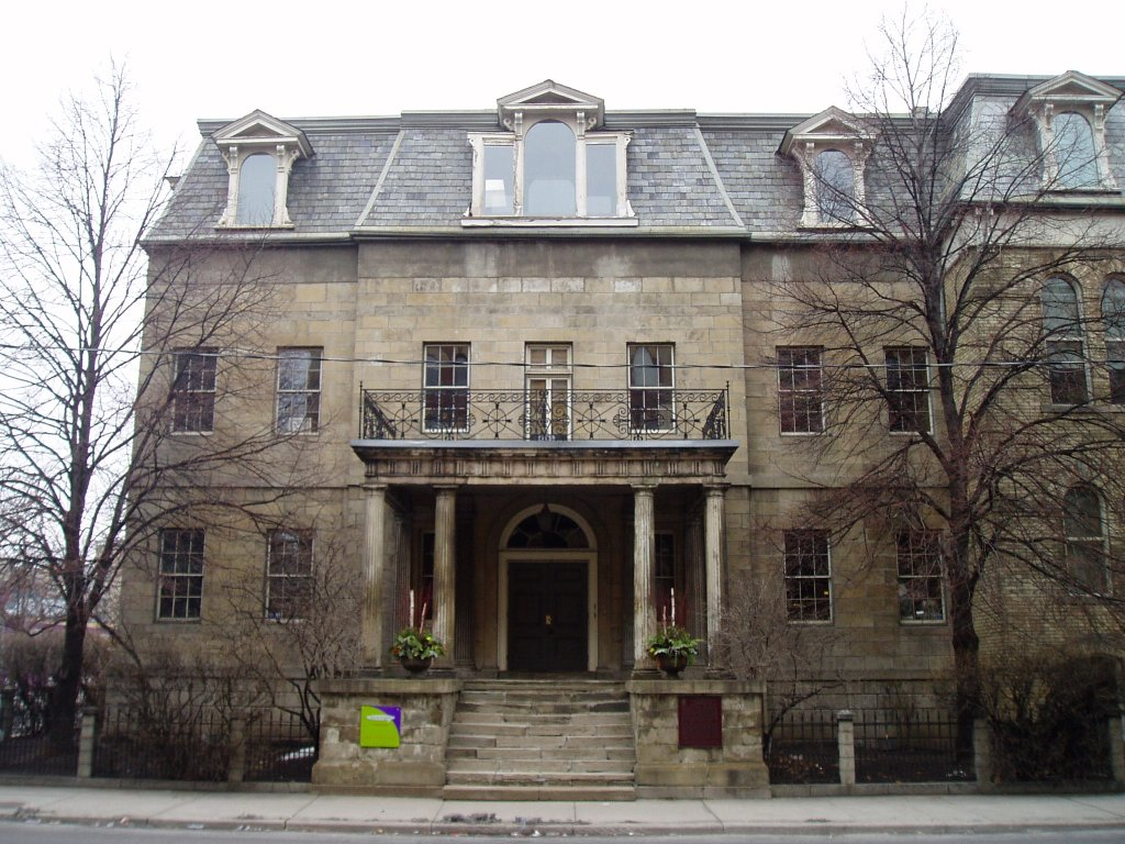 The Bank of Upper Canada Building, taken by SimonP